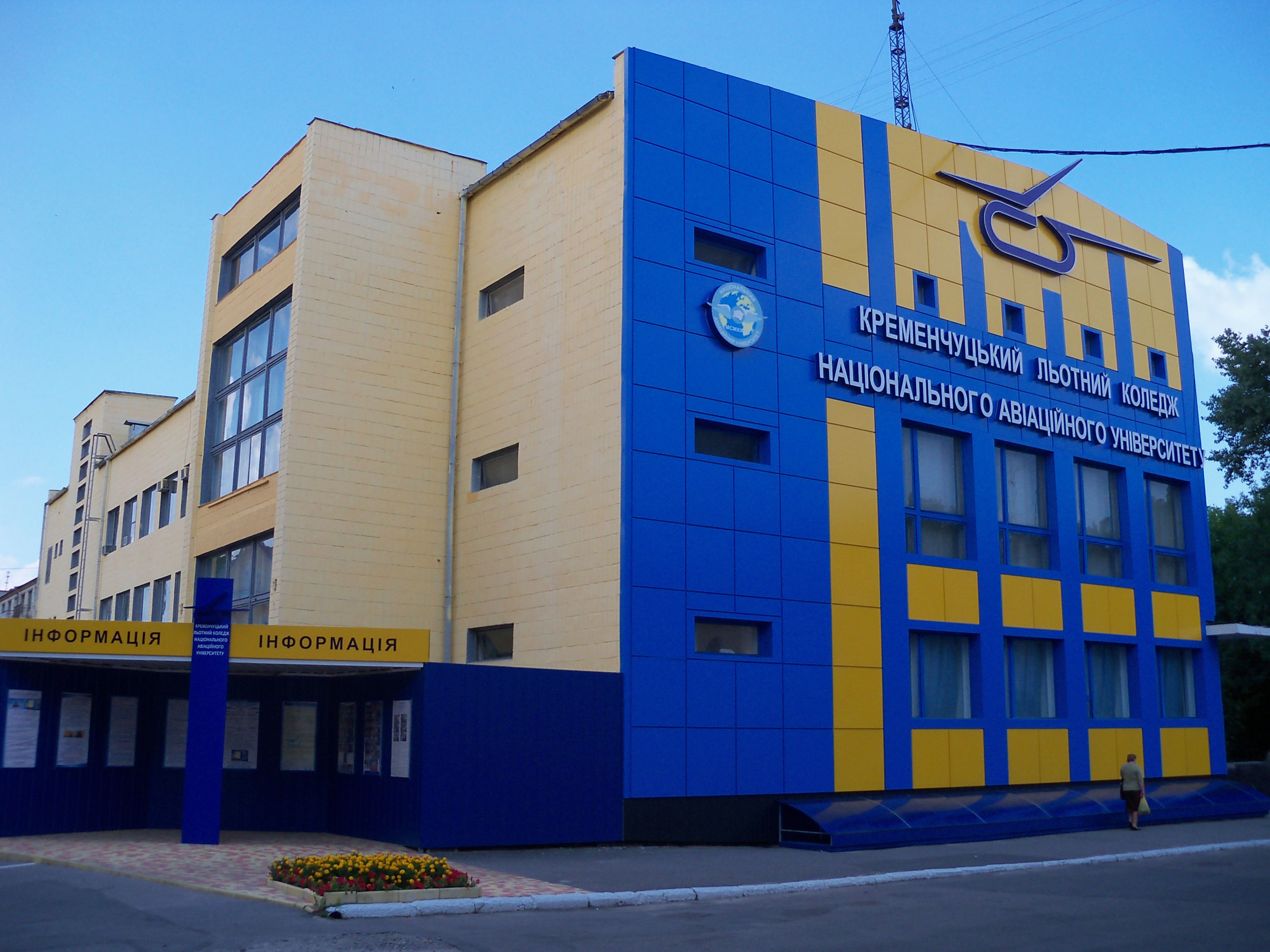 Kremenchuk Flight College